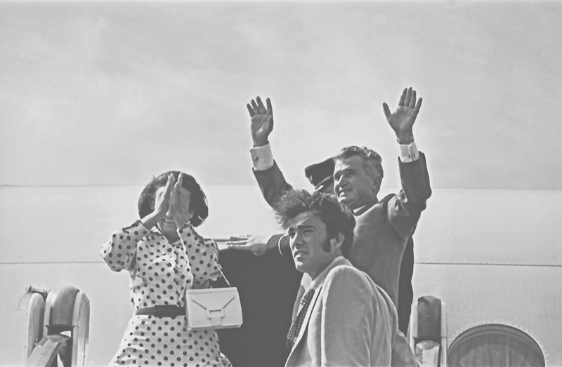 "Comrade Nicolae and Elena Ceausescu, at the Chisinau airport - 2" (on 2 August 1976 - the celebration of the 36th Anniversary of the Moldavian SSR).